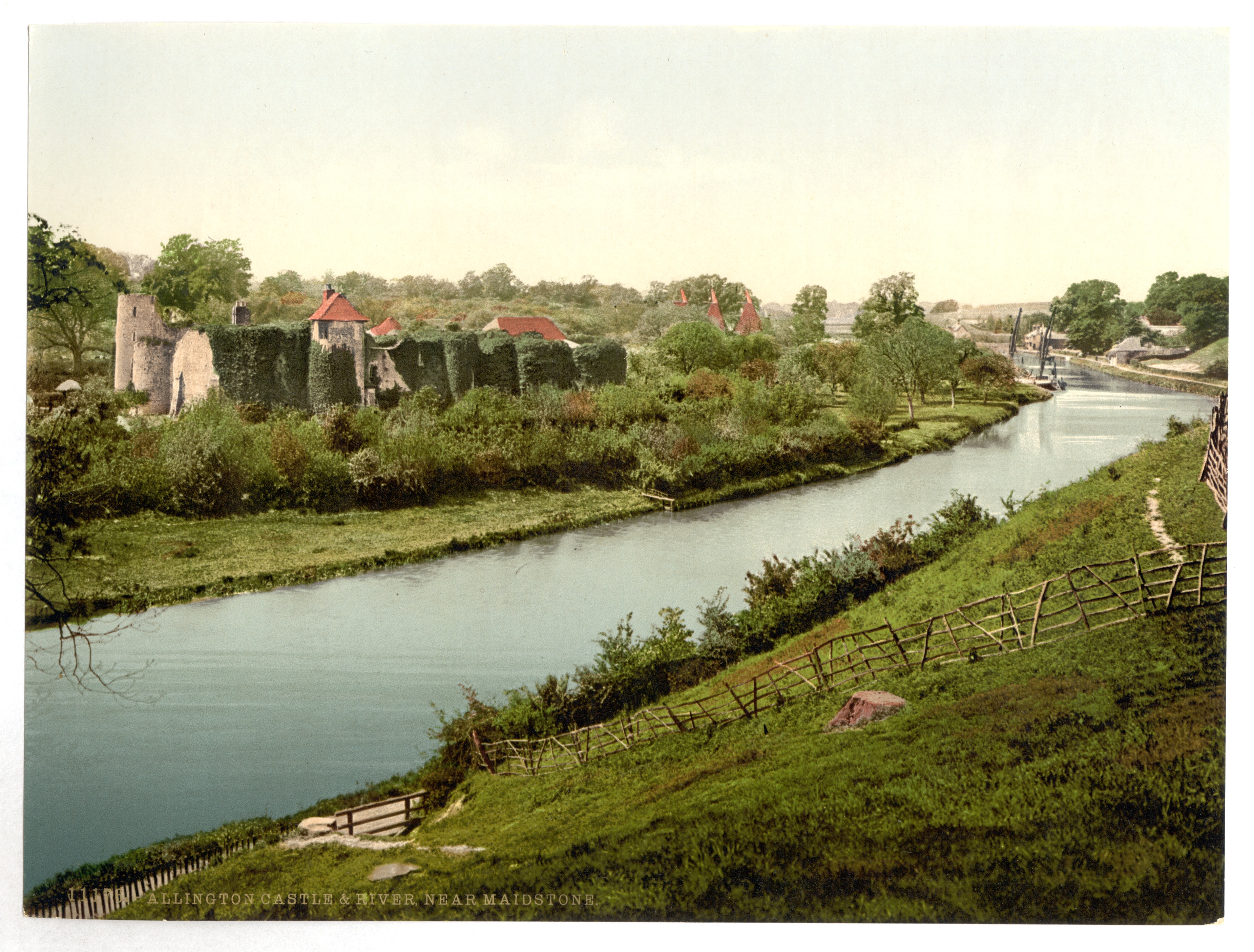 Print no. "11176".; Forms part of: Views of the British Isles, in the Photochrom print collection.; More information about the Photochrom Print Collection is available at Title from the Detroit Publishing Co., Catalogue J-foreign section, Detroit, Mich. : Detroit Publishing Company, 1905.